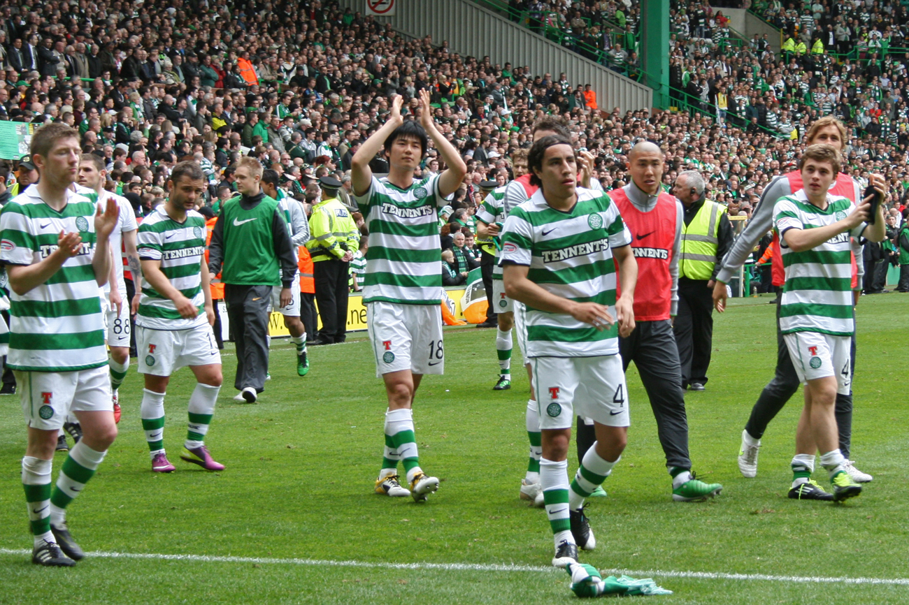 Players of Celtic F.C. on final day of the 2010/11 season.